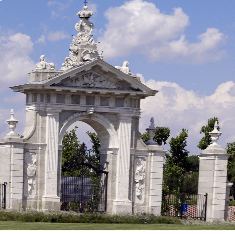 Puerta de Hierro (Madrid, Spain)